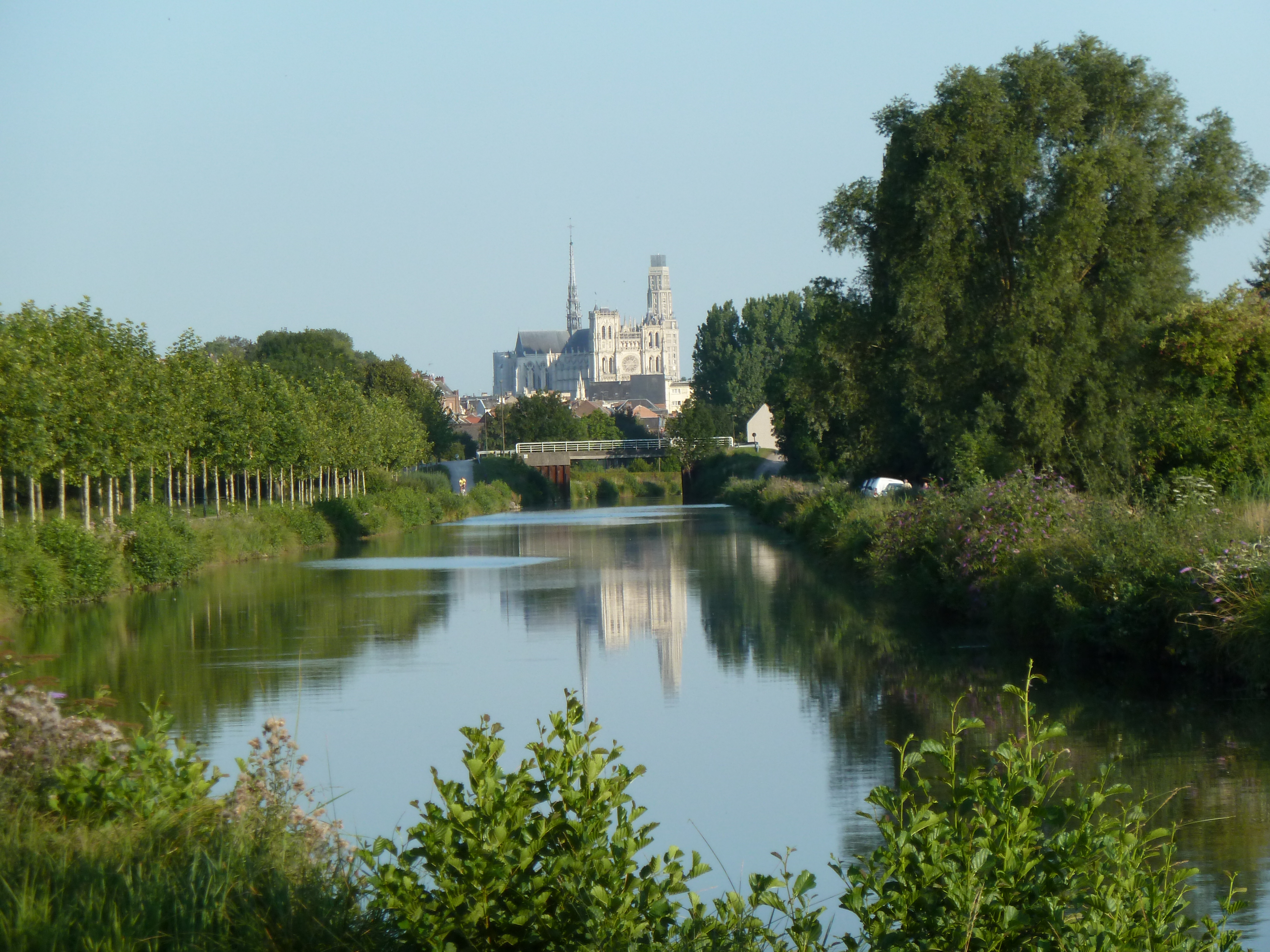 Amiens, Cathedral Notre-Dame Amiens and the Somme